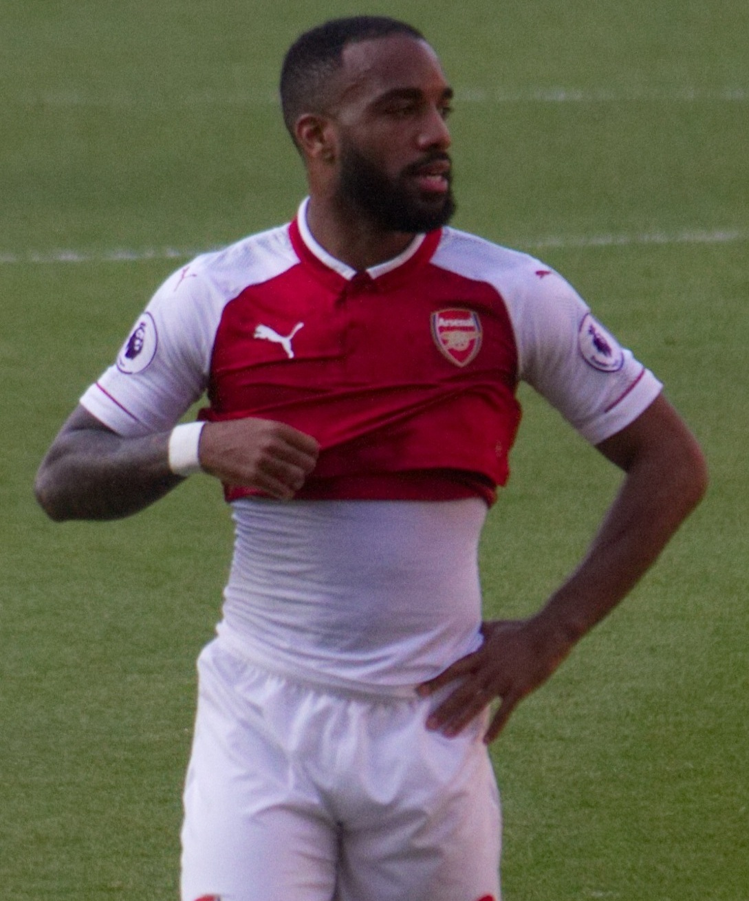 Alexandre Lacazette in 2018 May